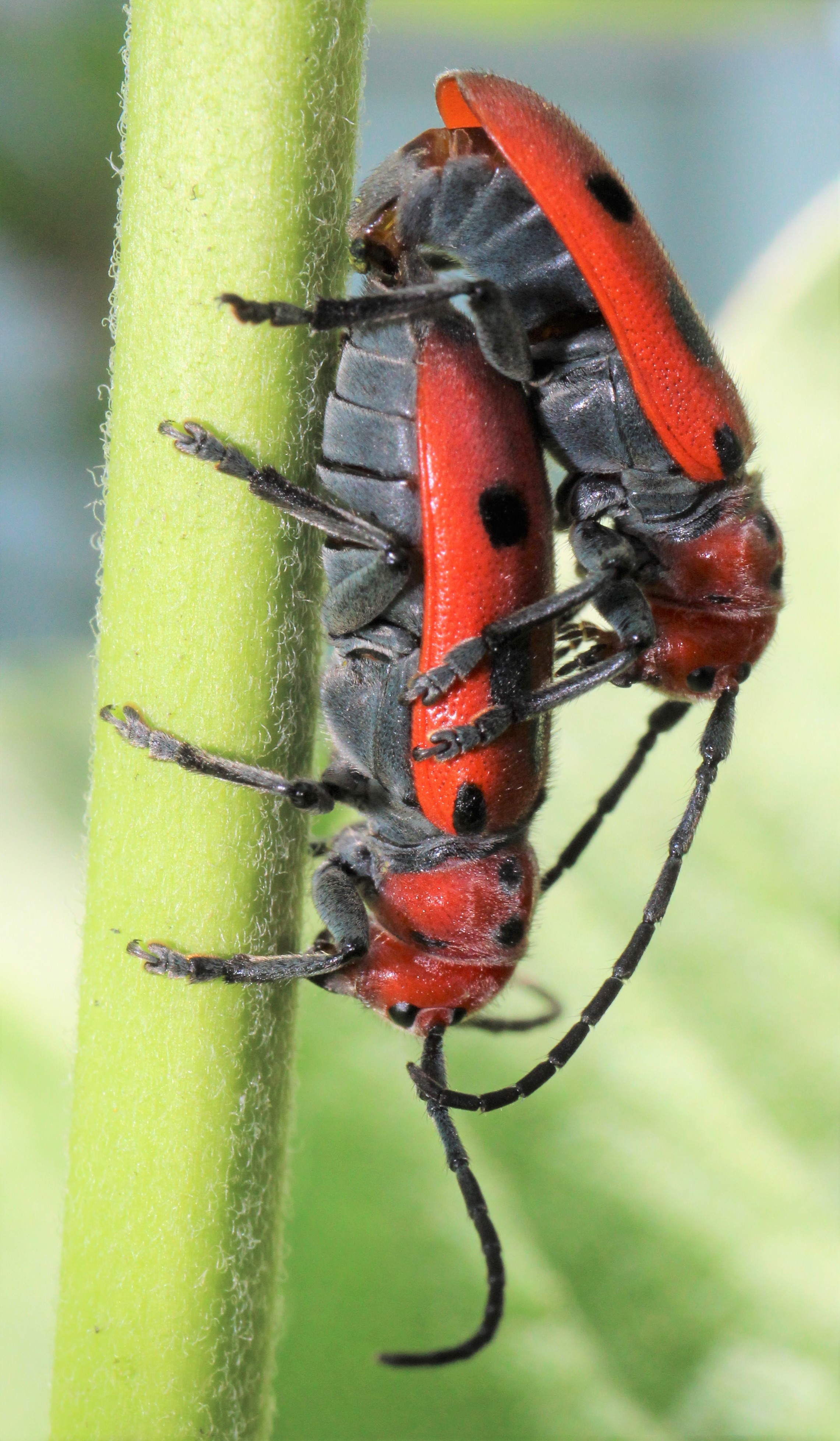 Mating